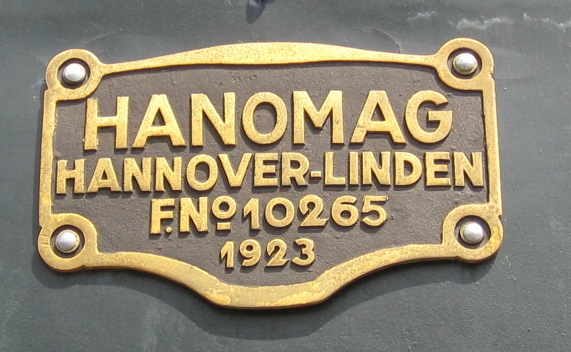 Number plate of finnish railways class Vr1 steam locomotive No. 760. Built by Hanomag in Hannover-Linden, Lower Saxony, Germany in 1923 as No. 10265. Now on display at the salder castle museum in Salzgitter-Salder, Lower Saxony, Germany.